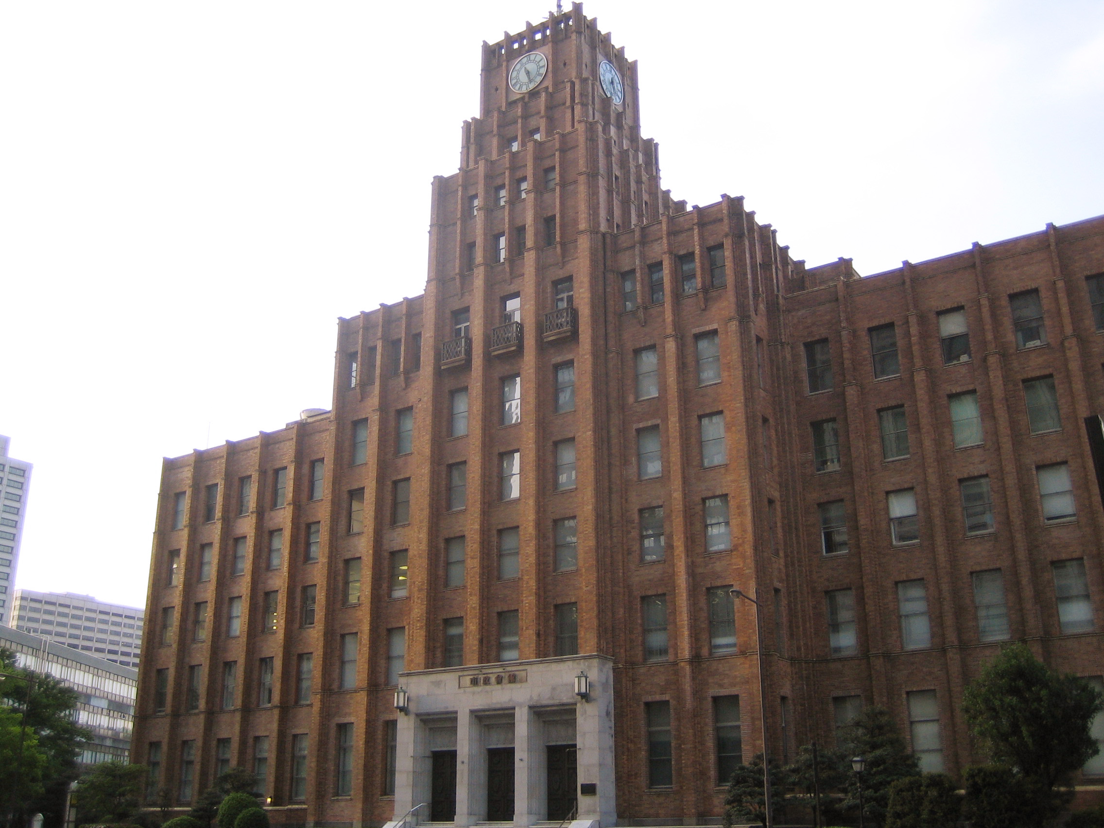 Municipal Research Building (市政会館 Shisei Kaikan), at Hibiya Park, Chiyoda, Tokyo, Japan